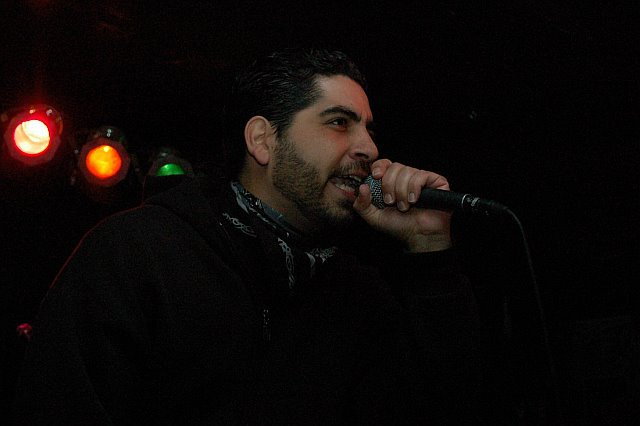 Savage Sun performing live at Ray's Golden Lion in Richland, Washington in March 2009